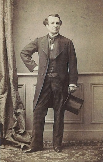 Portrait of the French opera singer Joseph-Antoine-Charles Couderc (1810-1875)